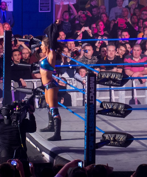 Tessmacher at a TNA Live Show in London.